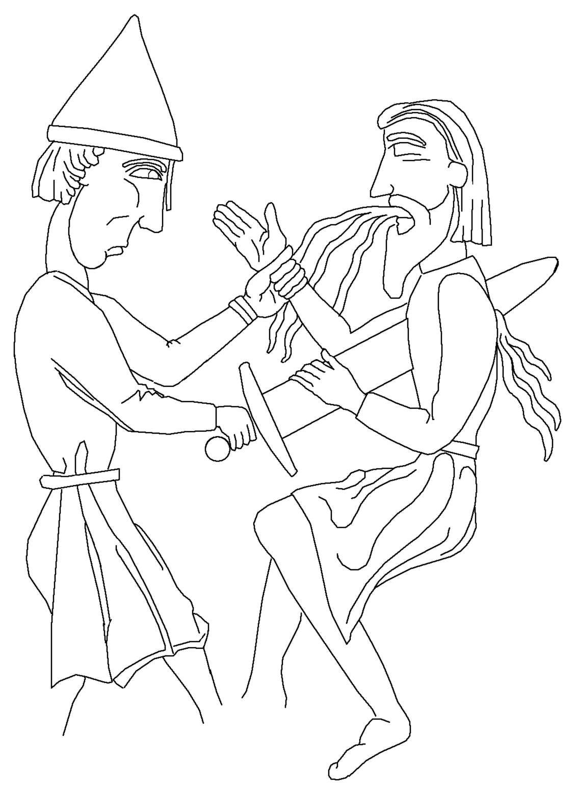 Figure of scene: Sigurðr kills Reginn From the Sigurd Portal, a 12th-century carved wood entrance, of the medieval Hylestad Stav Church, in Setesdal, Norway Photo of the Sigurd Portal from the University of Pittsburg